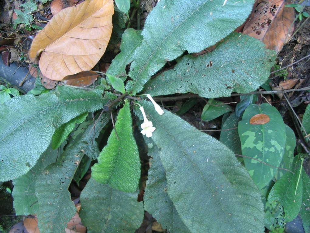 Henckelia platypus